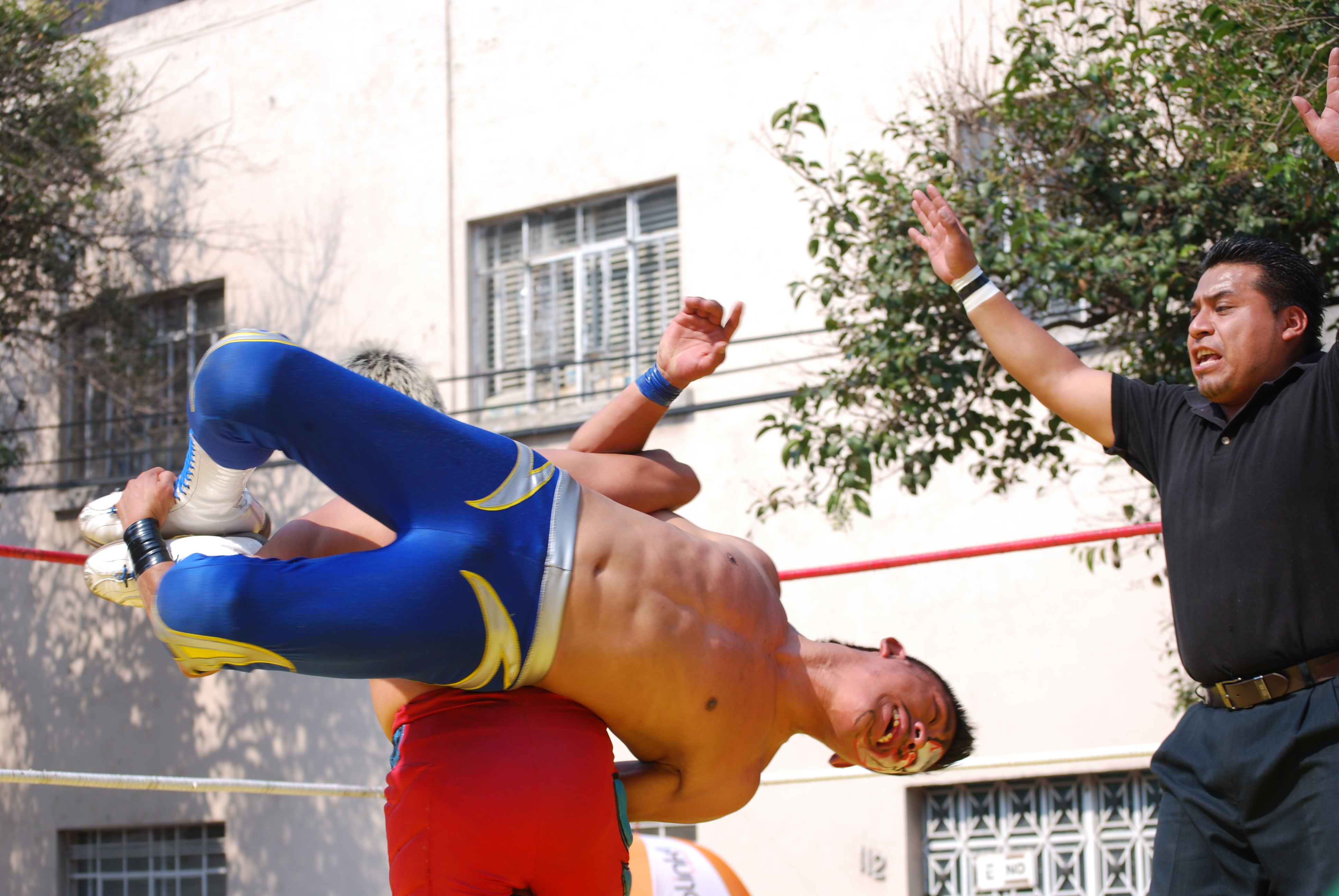 First match at a CMLL lucha libre event part of Festival Día de Reyes Territorial Obrera Doctores in Mexico City